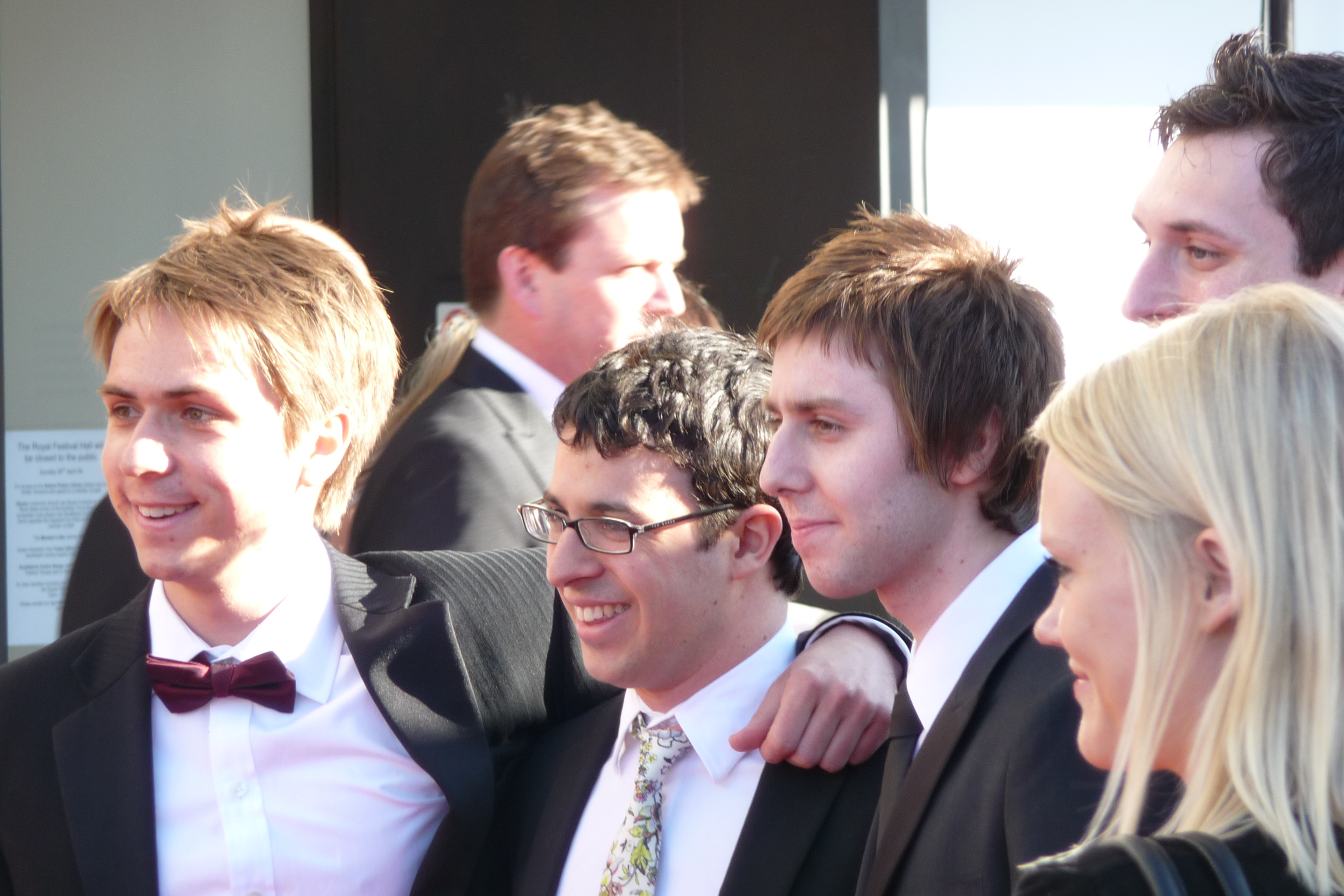 Cast of The Inbetweeners, actors Simon Bird, Joe Thomas, James Buckley and Blake Harrison